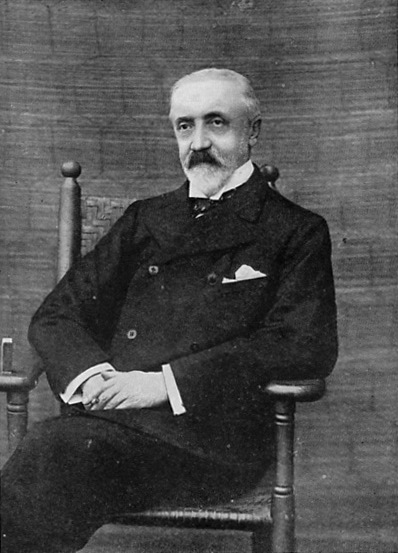 Baron Roman Romanovitch Rosen was the Russian ambassador to the United States during the Russo-Japanese War. He was also former ambassador to Japan, and had attempted to prevent the conflict in the first place. When Theodore Roosevelt attempted to mediate the hostilities, he was part of the Russian delegation along with Sergei Witte that travelled to the Portsmouth Peace Conference to negotiate a cessation of hostilities and a peace treaty. Public Domain